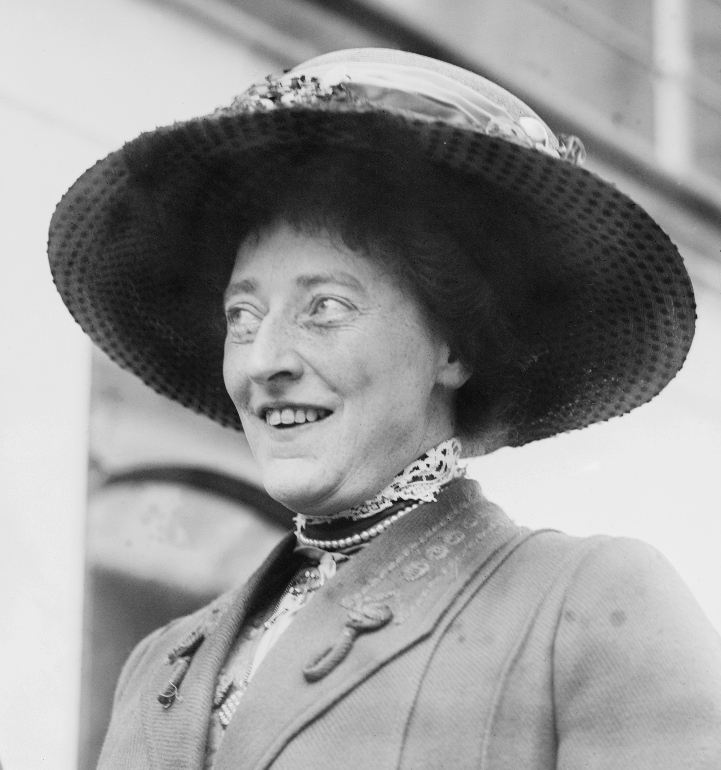 Emily Dorman, wife of Ernest Henry Shackleton